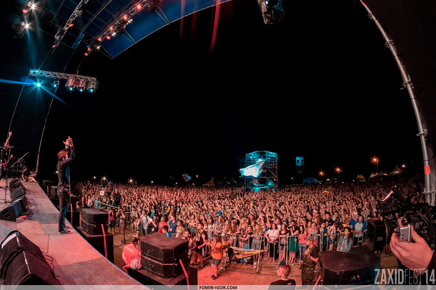 Anti Flag on Zaxidfest Main Stage